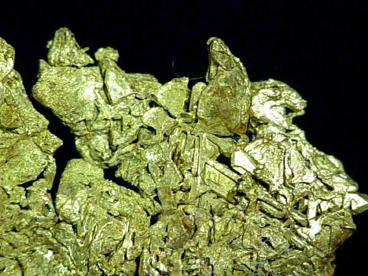 Gold Locality: Roşia Montanã (Verespatak; Vöröspatak; Goldbach), Alba County, Romania (Locality at ) Size: miniature, 3.3 x 2.6 x 0.2 cm Gold An exquisite plate composed of intergrown, dense gold crystals. This is a rich and attractive miniature for this important, historic old locality and such specimens are hard to come by at a reasonable price (which I feel this one is at). Although there are no old labels, a friend of mine has taken the piece to copare to those in museums in Vienna and in Prague, to be certain of its legitimacy.